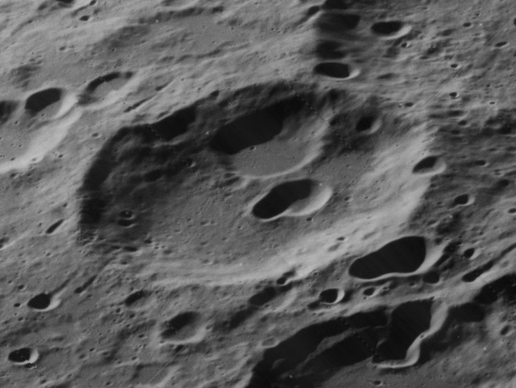 Oblique view of Frost, on the far side of the moon, facing west.